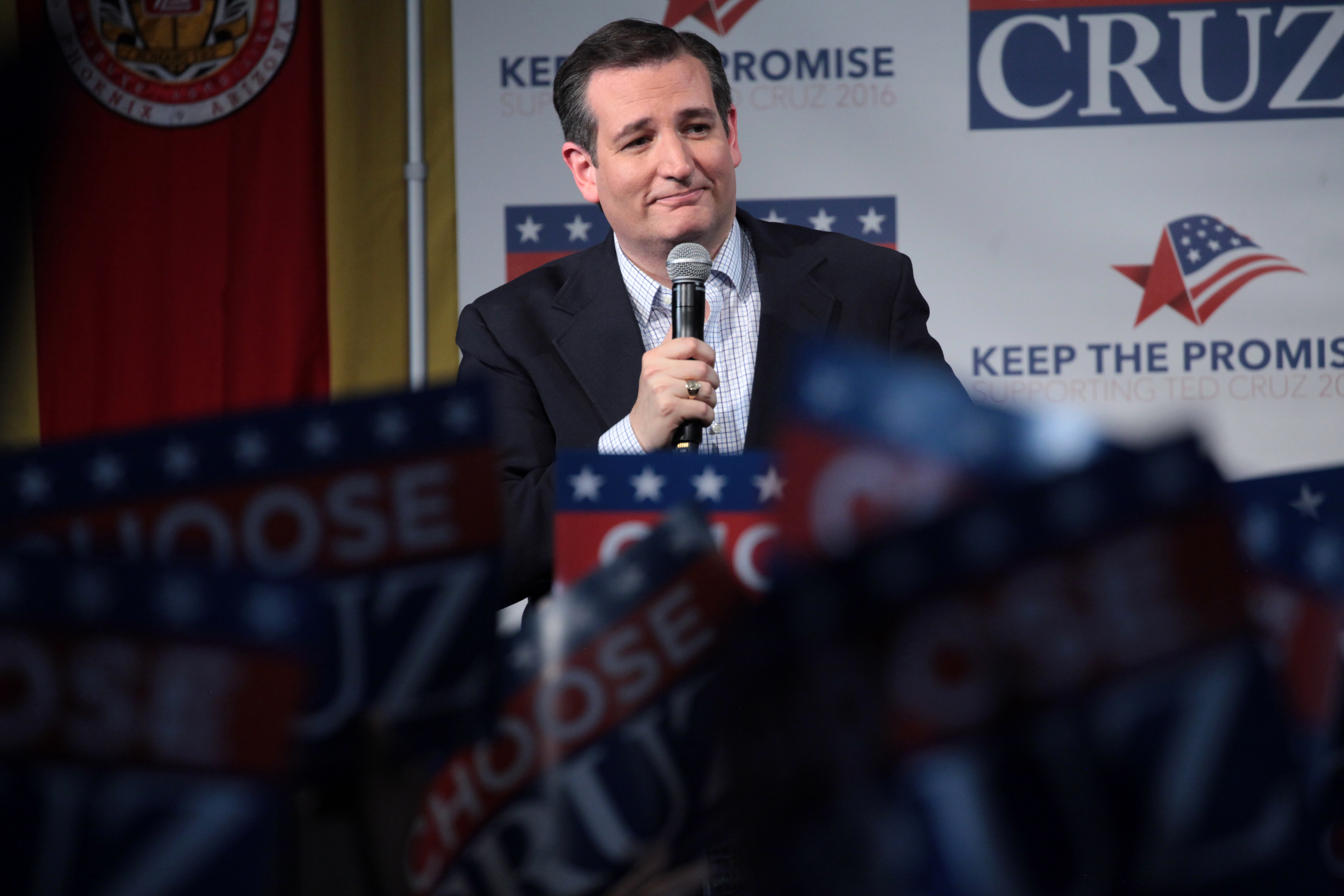 Ted Cruz speaking at a rally in Phoenix, Arizona.